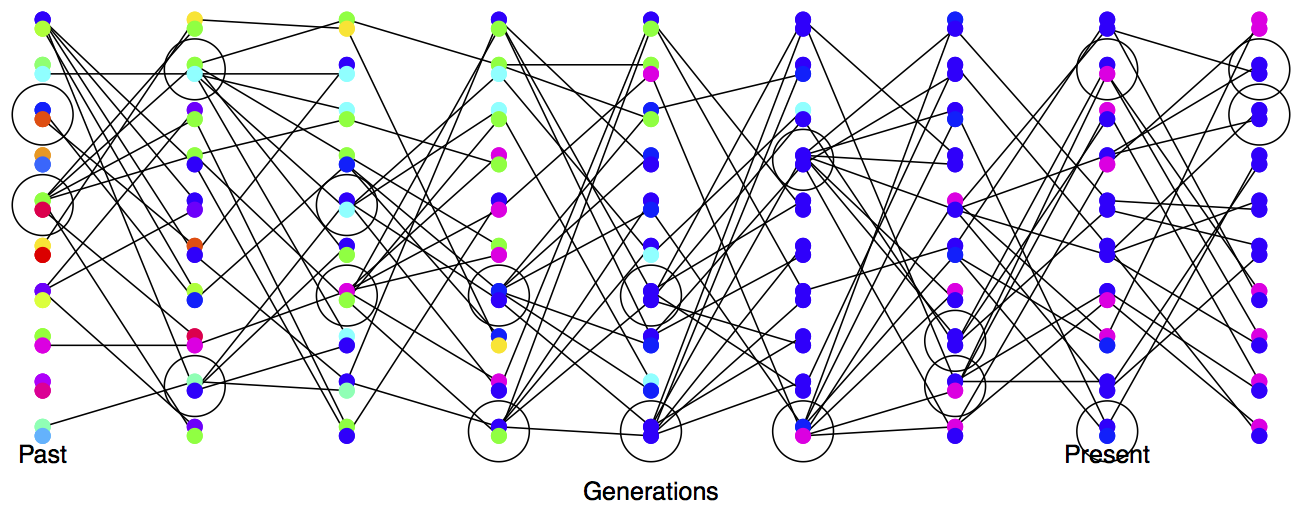 High variance on reproductive success increases the rate of genetic drift. A diploid population of 10 individuals, where the circled individuals have much higher reproductive success. In the first generation I colour every allele a different colour so we can track their descendants, there are no new mutations.